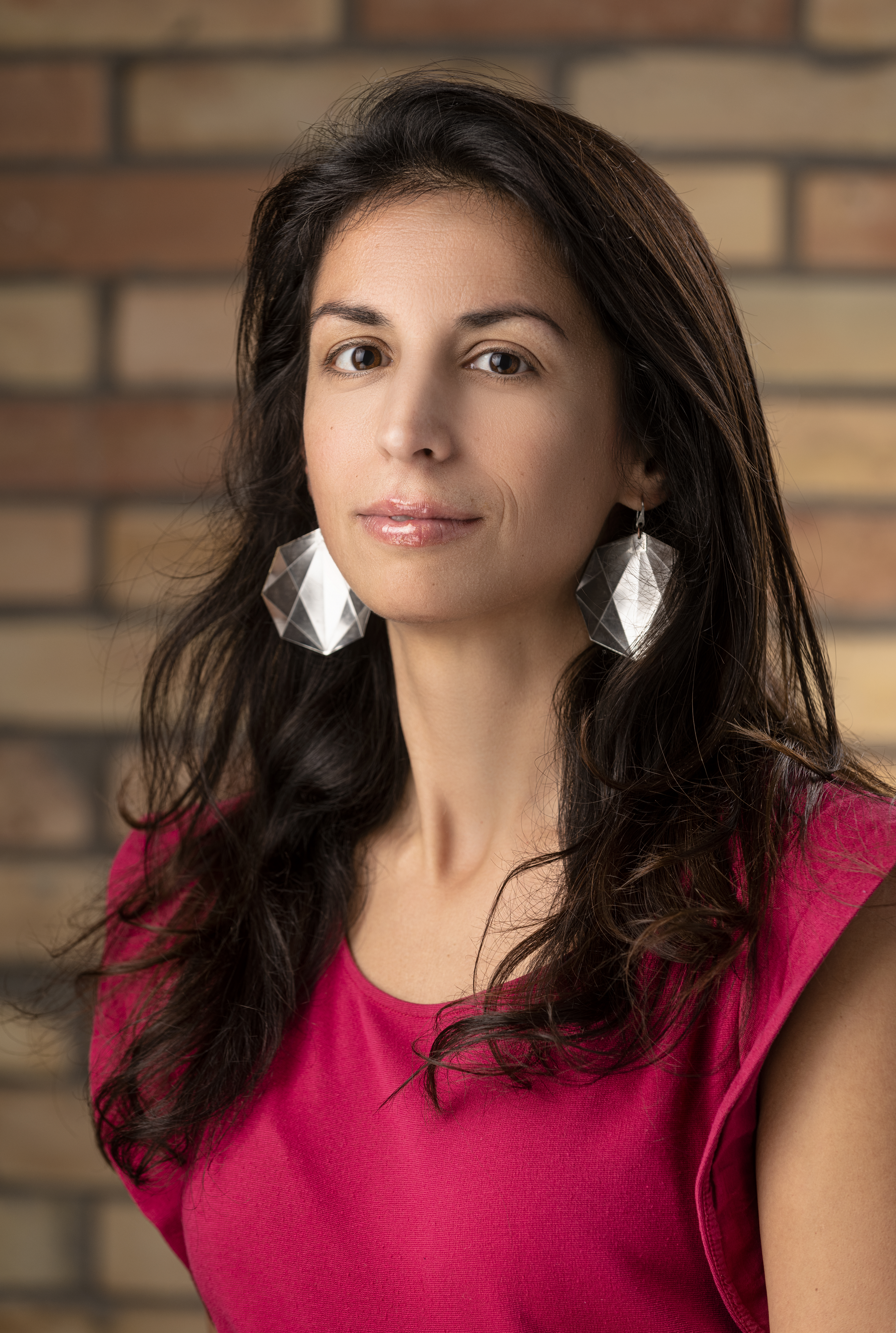 portre Oszkó-Jakab Natália